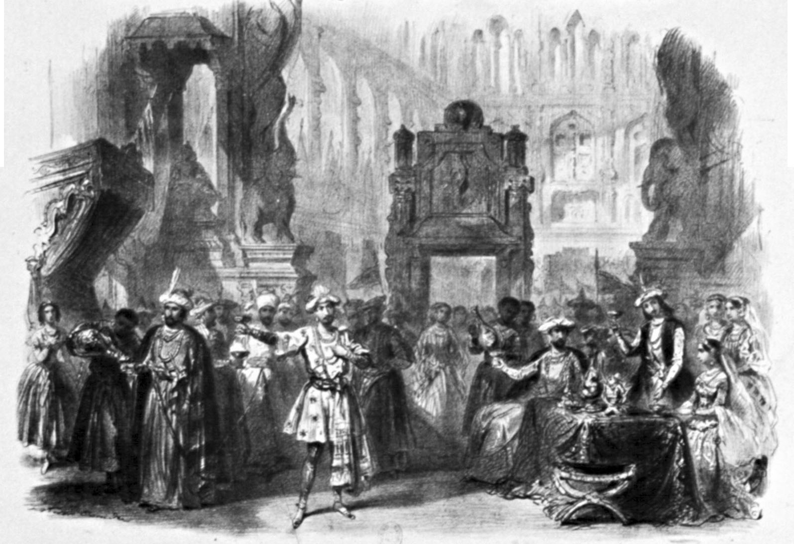 A scene from Adolphe Adam's 3-act opéra-comique Si j'étais roi, an illustration on the cover of an 1854 piano-vocal score of musical excerpts